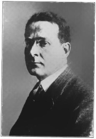 Photograph of journalist Herbert Bayard Swope (1882-1958)